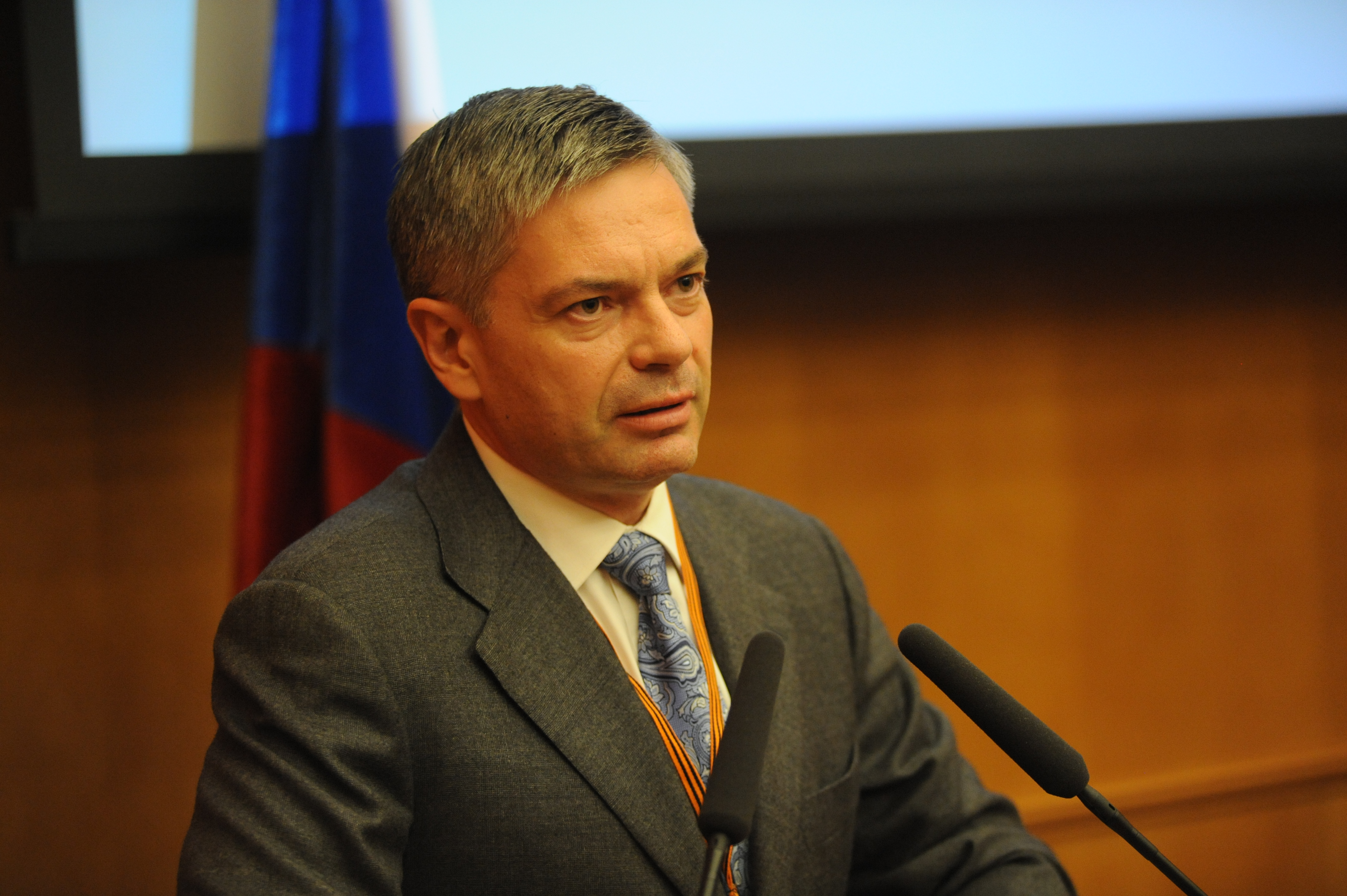 Mr. Shishkarev giving his speech